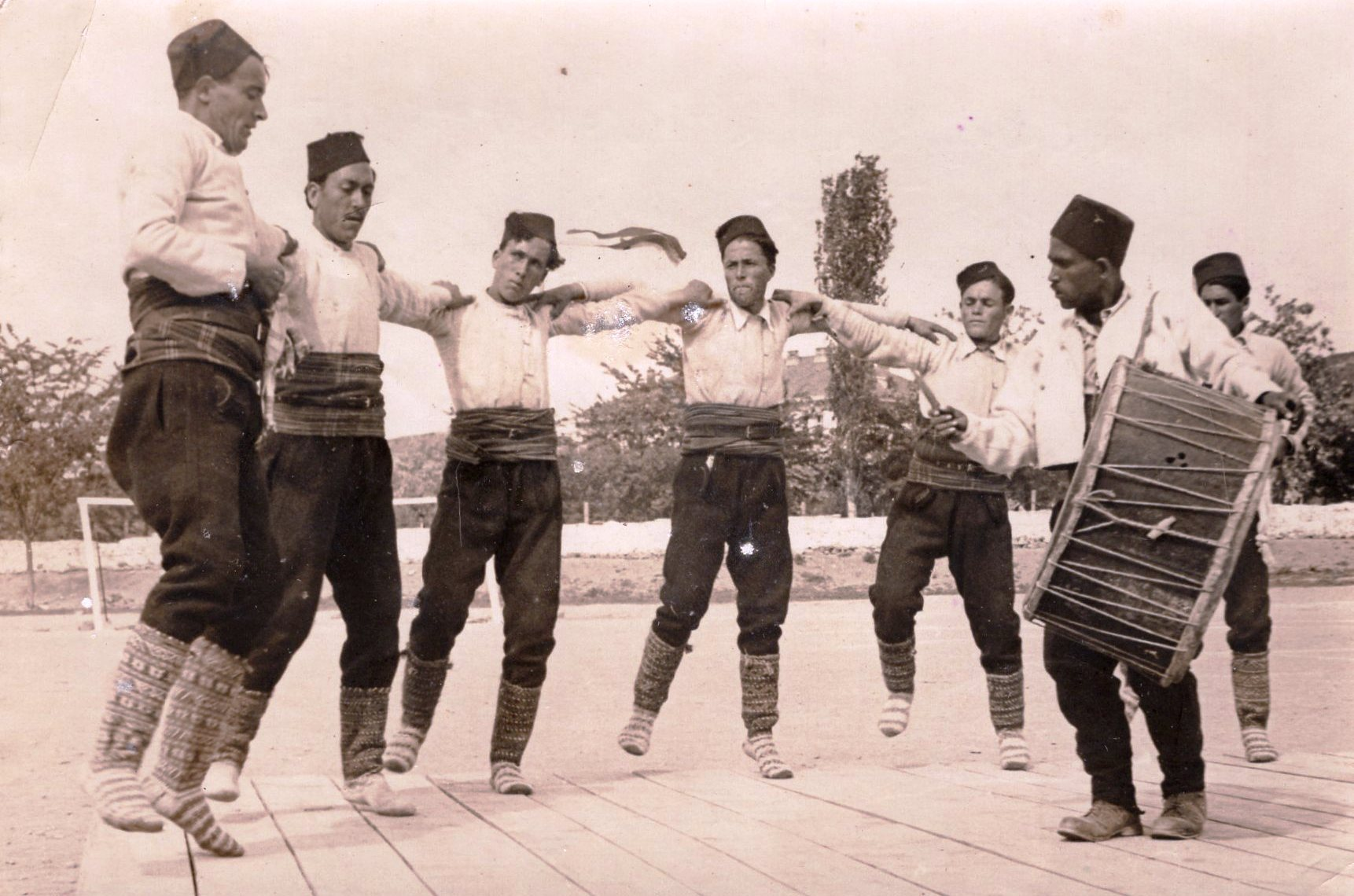 Men's folk group from the village Topolnica, Radovisko This media file is produced by Wikipedian in Residence in Category:Wikipedian in Residence at DARM in 2016.